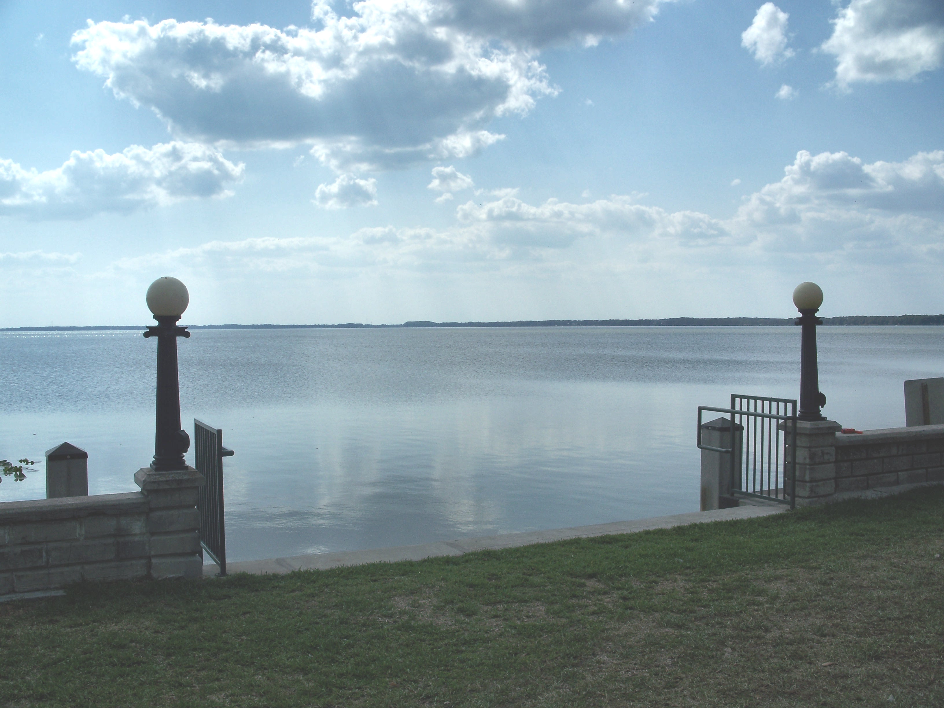 View of Lake Eustis from Ferran Park, in Eustis, Florida